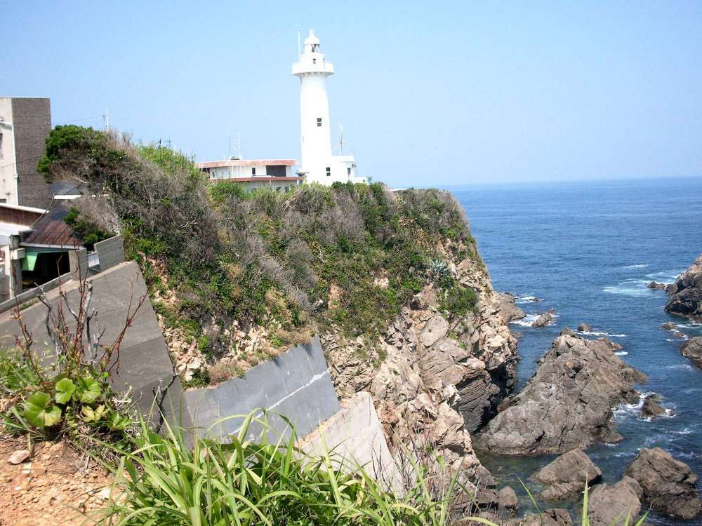 Daiozaki-todai is a lighthouse at Shima city, Mie prefecture Japan.